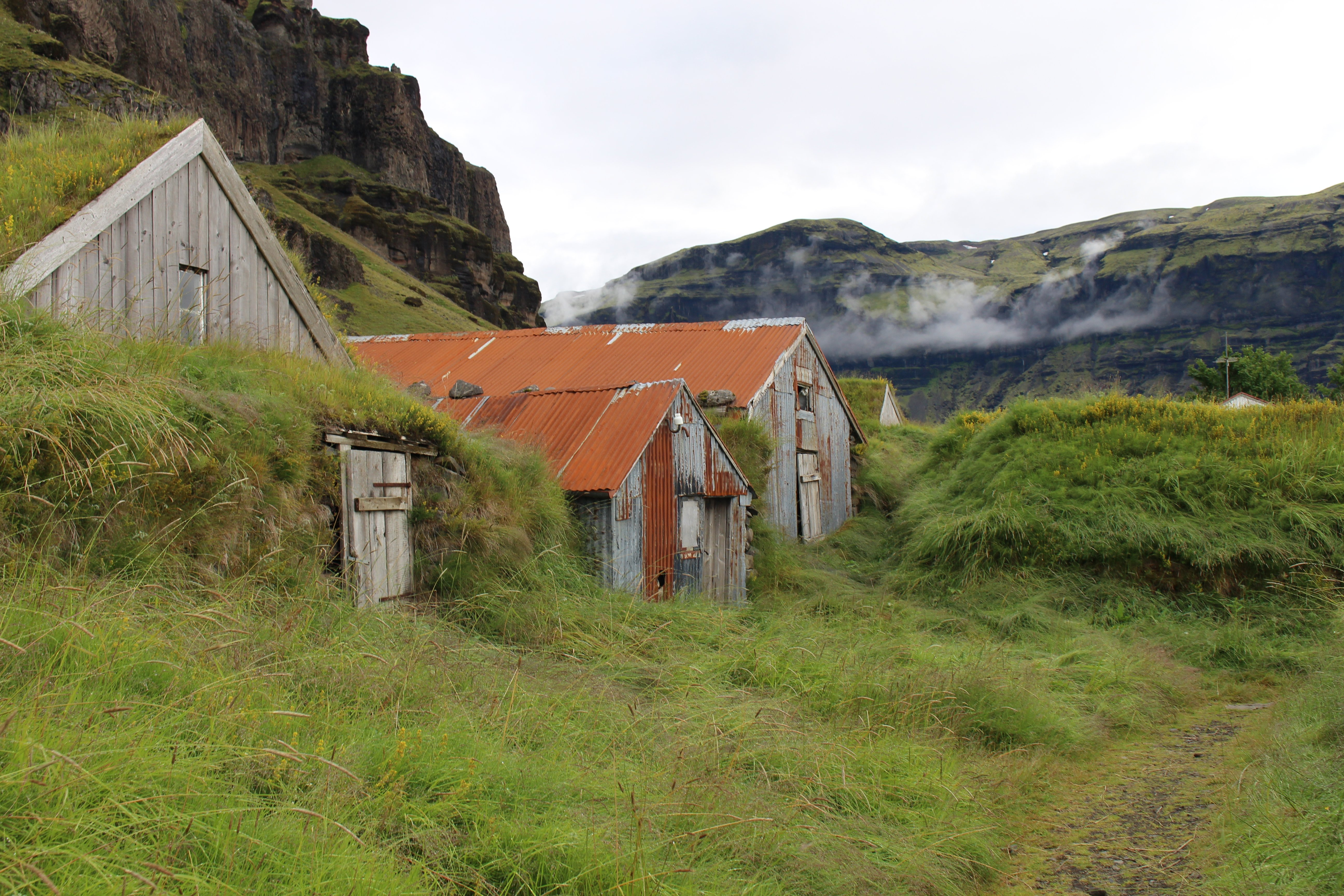 Abandoned Turf Farm of Núpsstaður